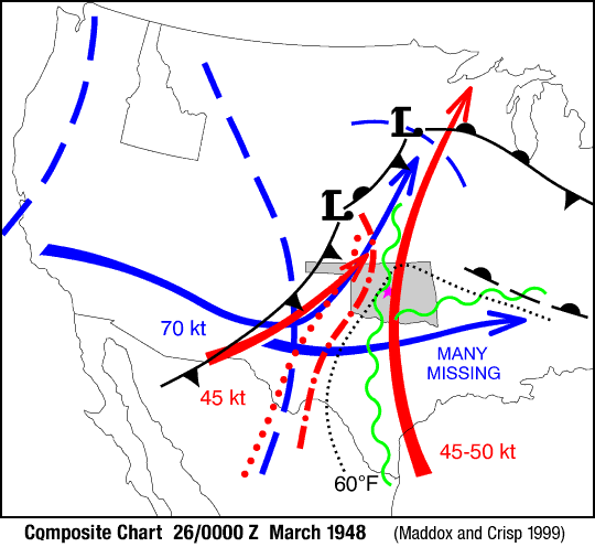 Severe weather composite chart to find the triggers for severe thunderstorms: this case is from 26th of March 1948 at 00 GMT. Features are 500-mb features in blue, 850-mb features in red and green, and surface frontal analyses and 60°F dewpoint in black. The wavy green lines indicate moisture axes at 850 mb and the red dotted lines the axes of highest temperatures at 850 mb. Maximum observed wind speeds are indicated; many winds were missing at 500 mb.